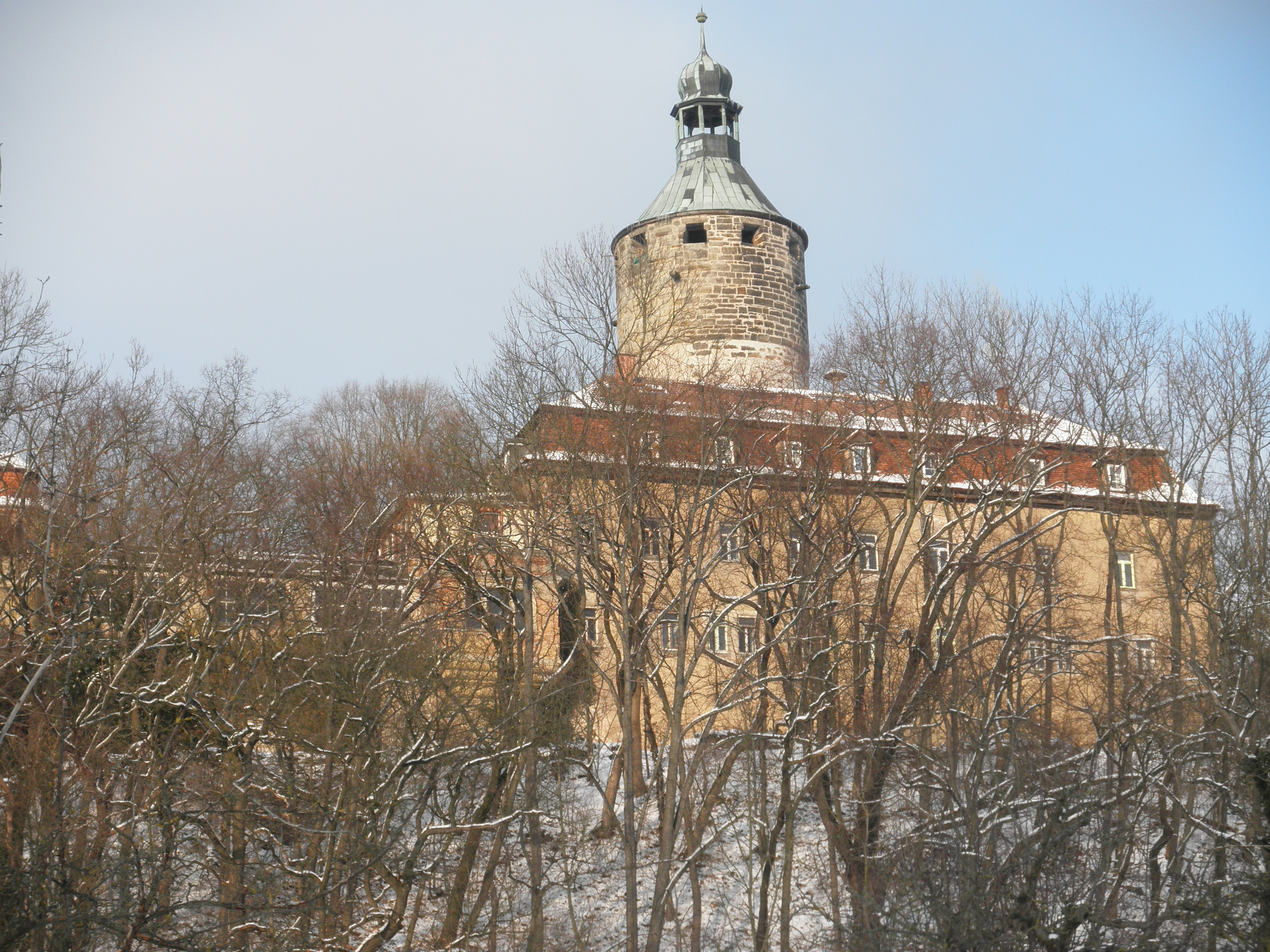 Castle Tonndorf (Thüringen) in Thuringia